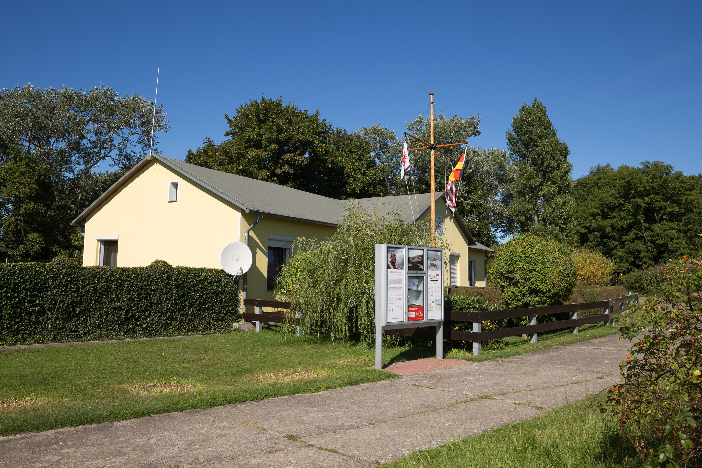 Greifswalder Oie, building of the German Maritime Search and Rescue Service